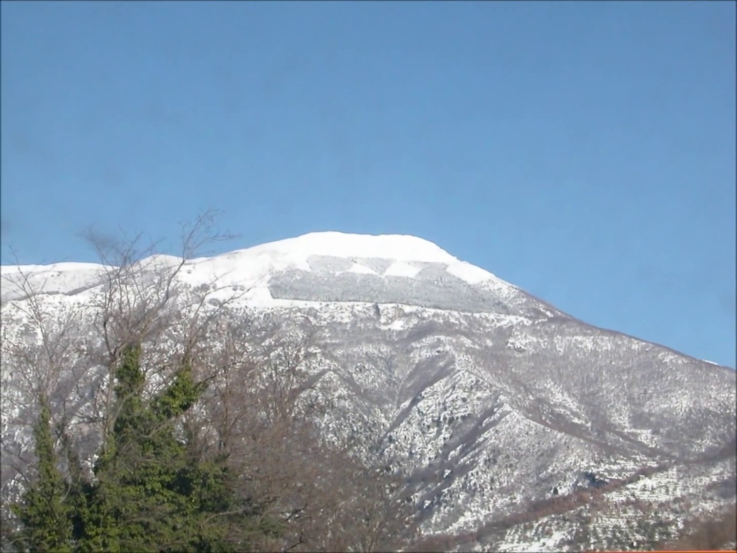 Picture taken on State Road n. 4 "Via Salaria", from the moving car.